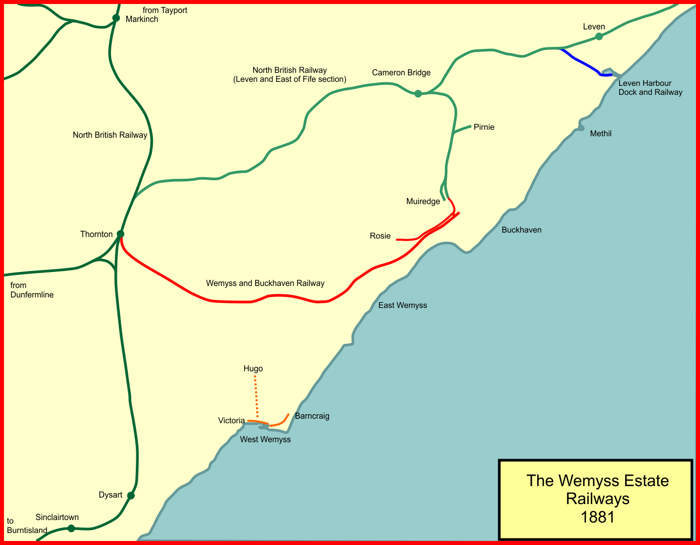 System map of the Wemyss Estate Railways in Fife, Scotland in 1881